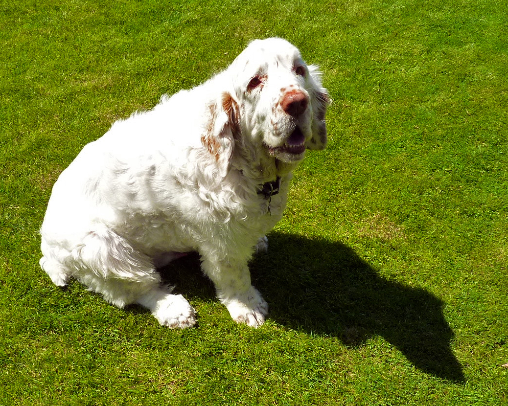 Uploaded from Flickr.